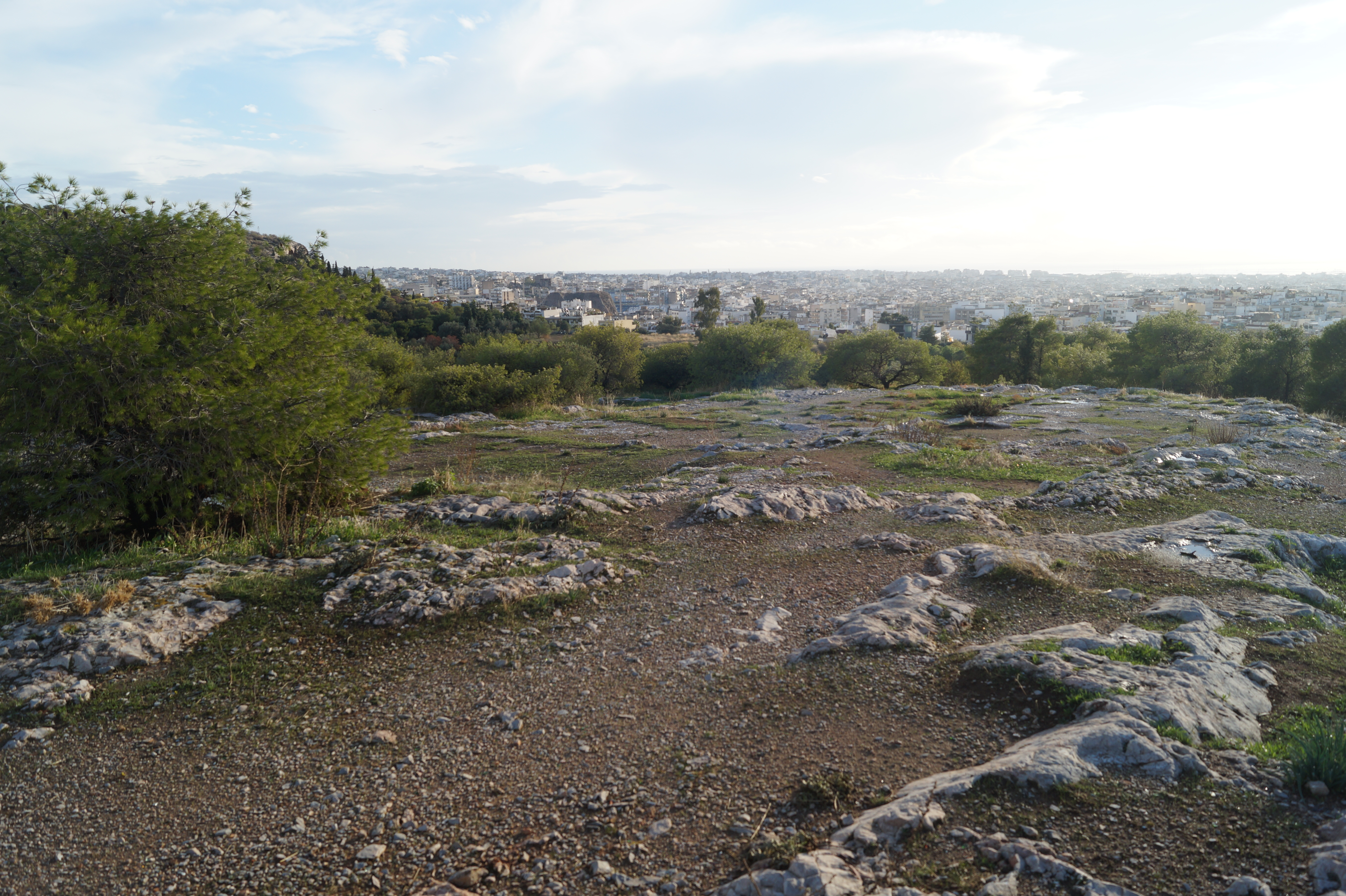 Athens, Greece: Bases of ancient houses of the deme of Melite cut into the rock. 250 m southwest of the Pnyx.